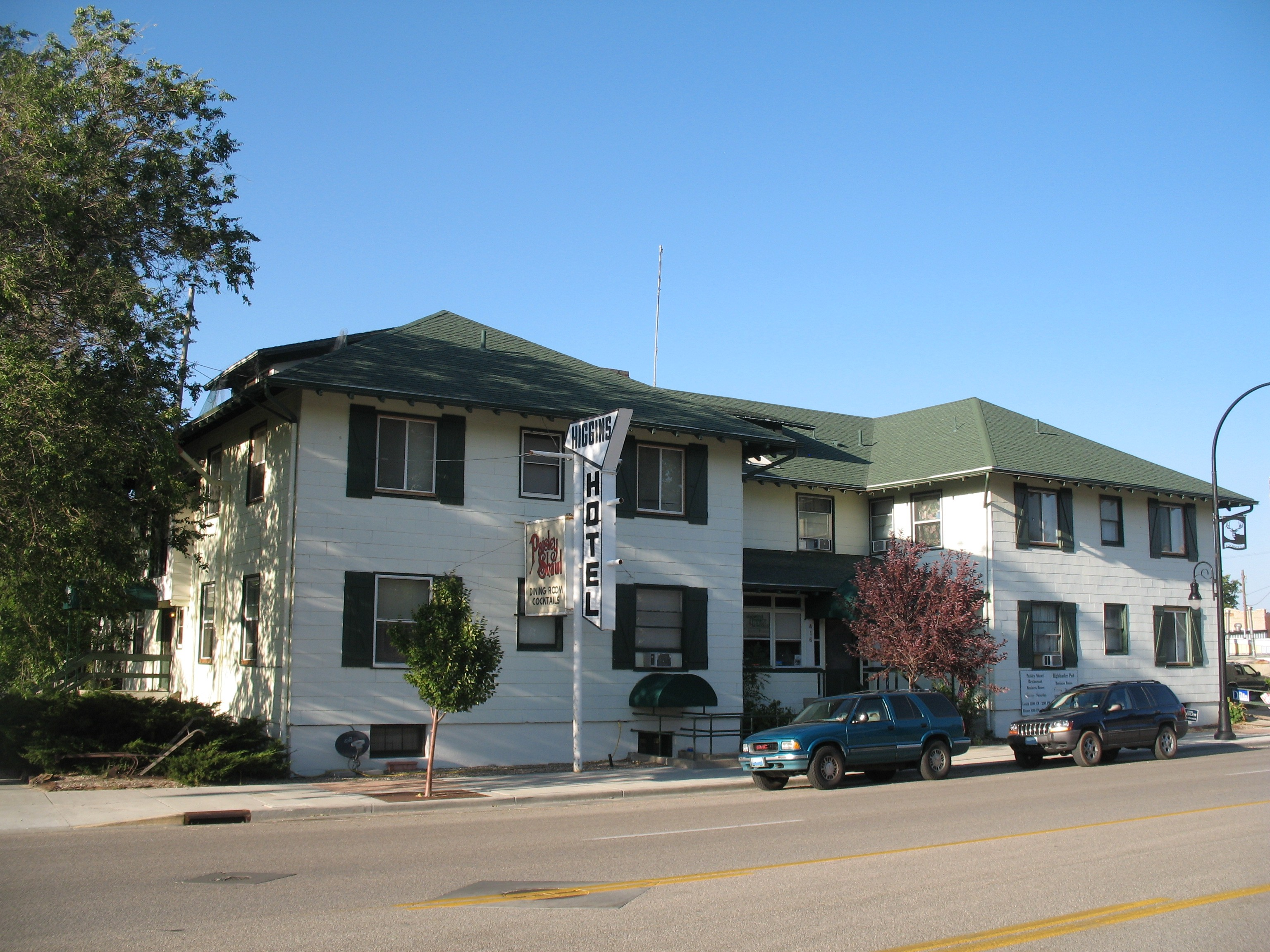 Hotel HigginsHiggins Hotel and office building, including Paisley Shawl restaurant.